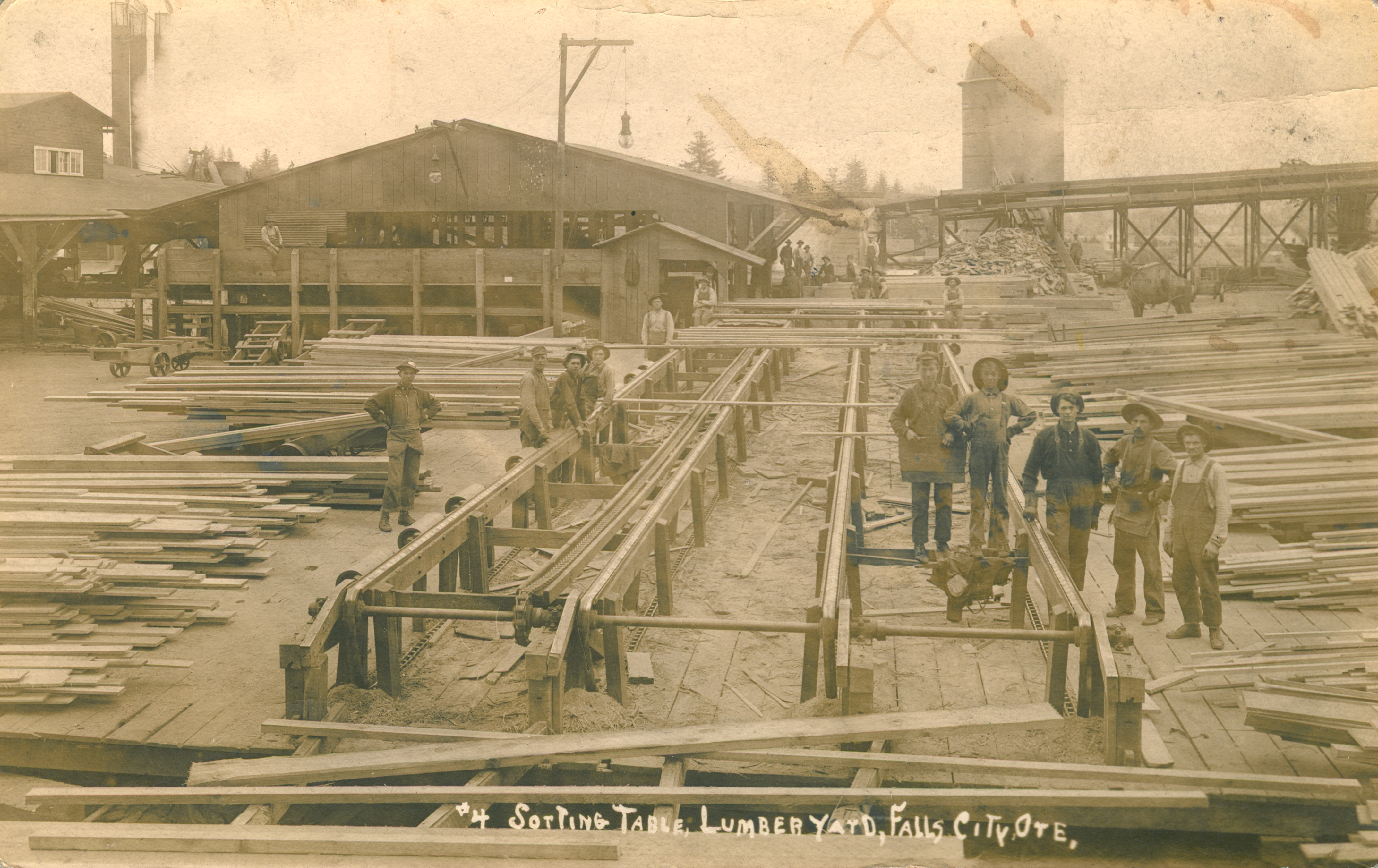 Original Collection: Gerald W. Williams Collection Item Number: WilliamsG:WV_Lumber Falls City You can find this image by searching for the item number by clicking here. Want more? You can find more digital resources online. We're happy for you to share this digital image within the spirit of The Commons; however, certain restrictions on high quality reproductions of the original physical version may apply. To read more about what “no known restrictions” means, please visit the Special Collections & Archives website, or contact staff at the OSU Special Collections & Archives Research Center for details.